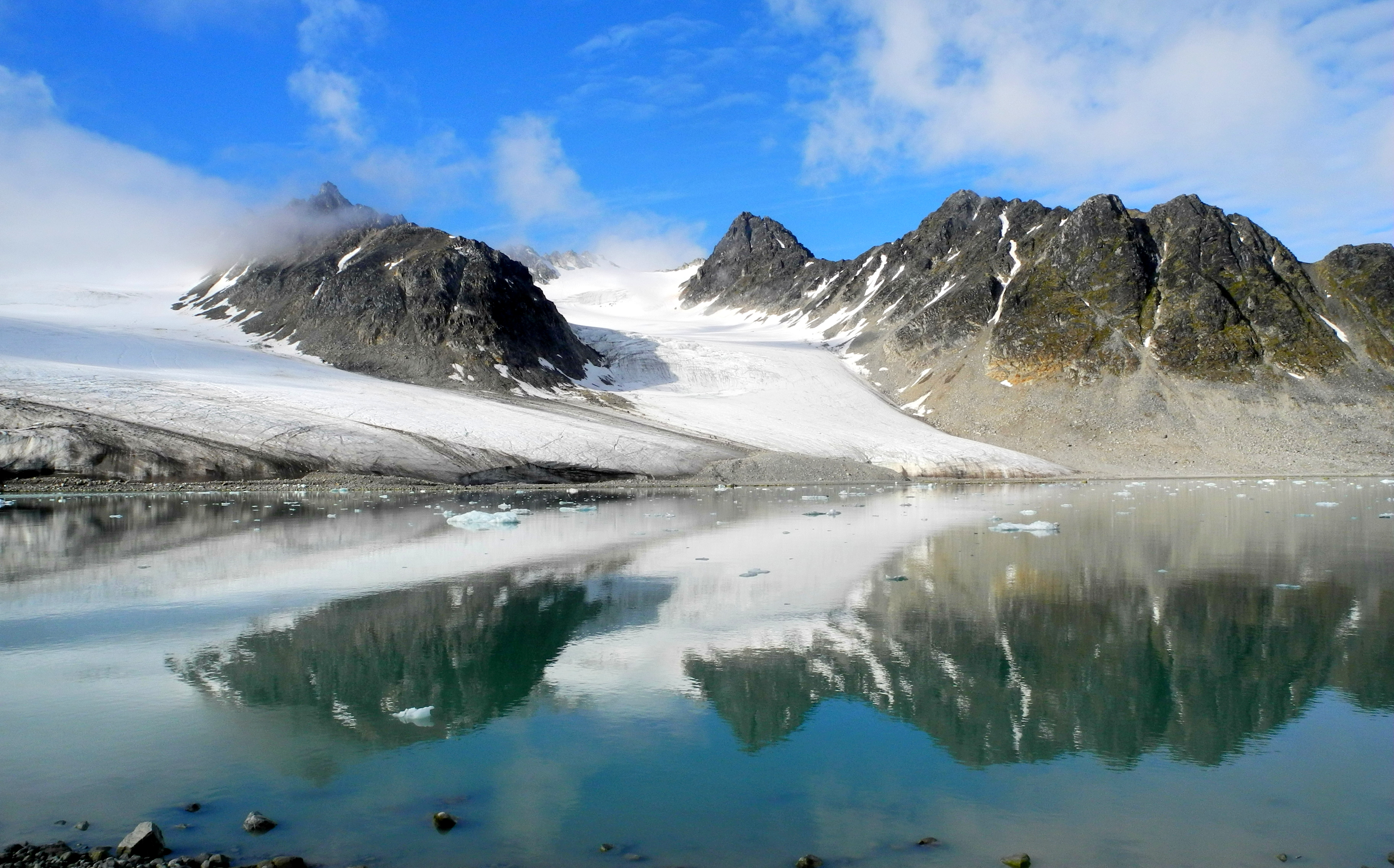 Gullybreen, a glacier in the Gullybukta, a bay in Magdalenefjorden